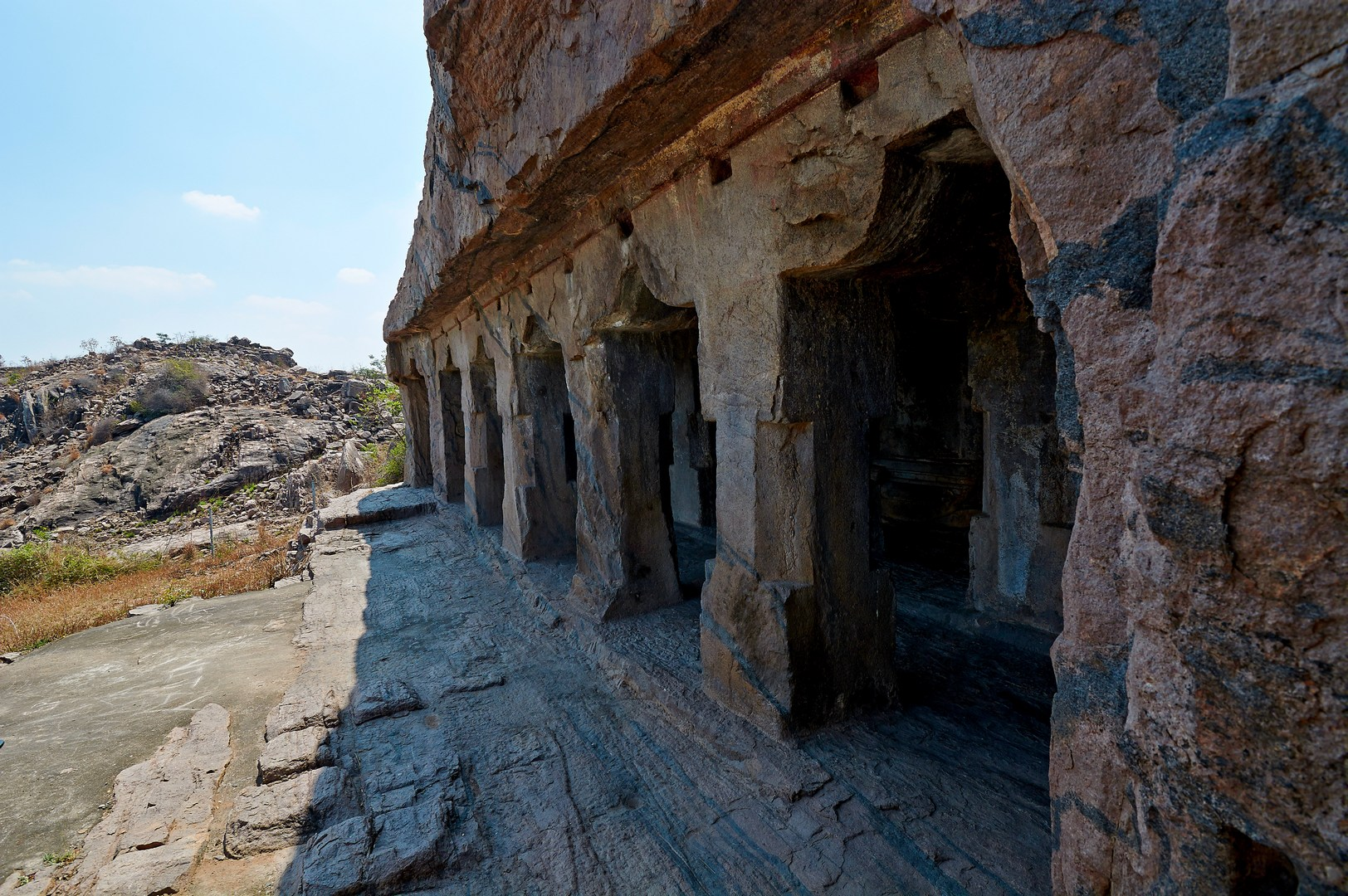 Front view and elevation of large unfinished second cave at narasamangalam